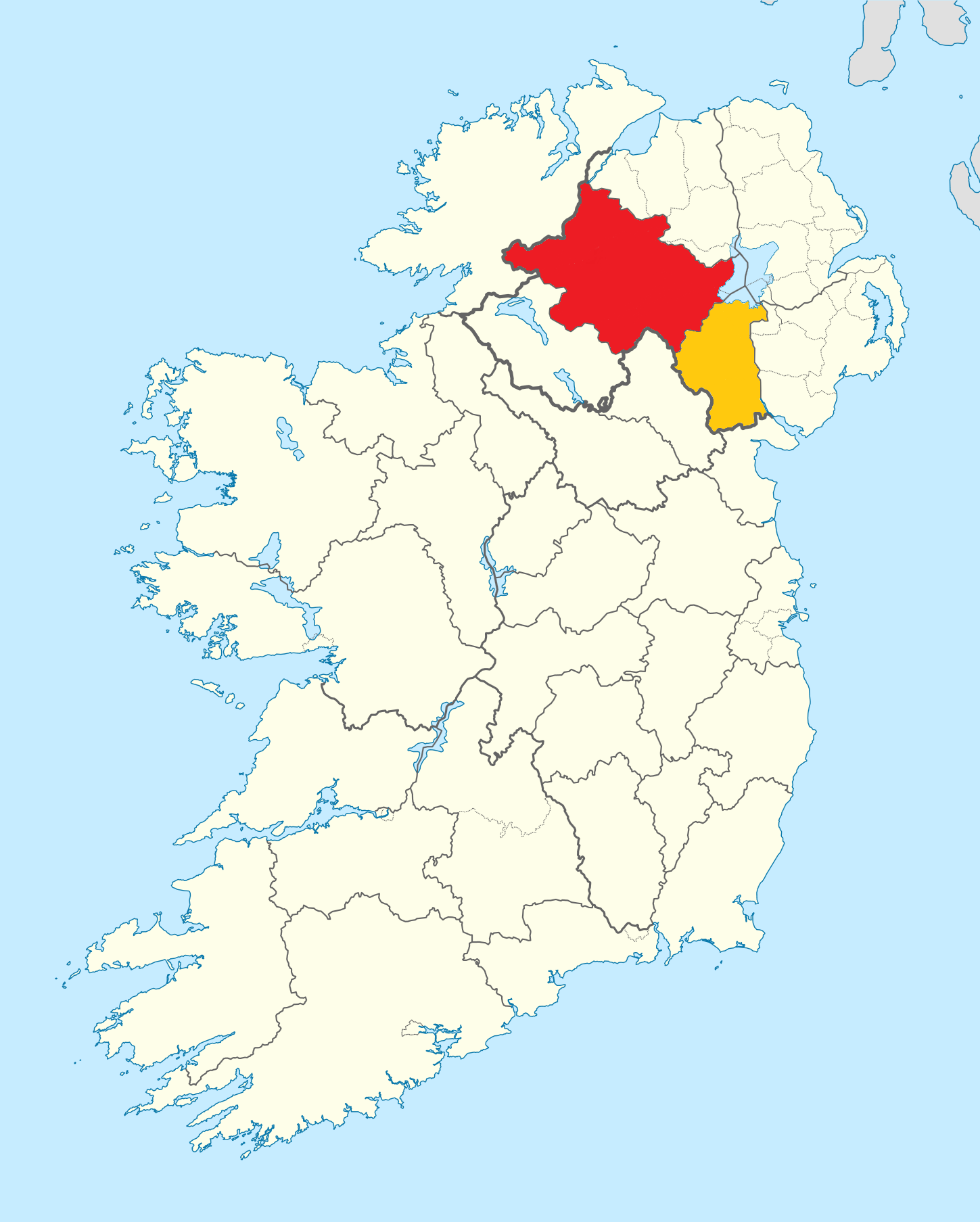 County Armagh (orange) and County Tyrone (red) shown within Ireland. The county colours correspond to the colours of Armagh GAA and Tyrone GAA.